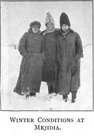 Scottish Women's Hospital - Russia - Mejidia - winter conditions